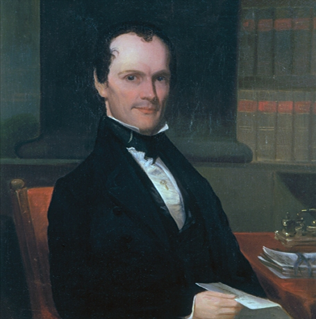 Portrait of Kentucky Governor James F. Robinson